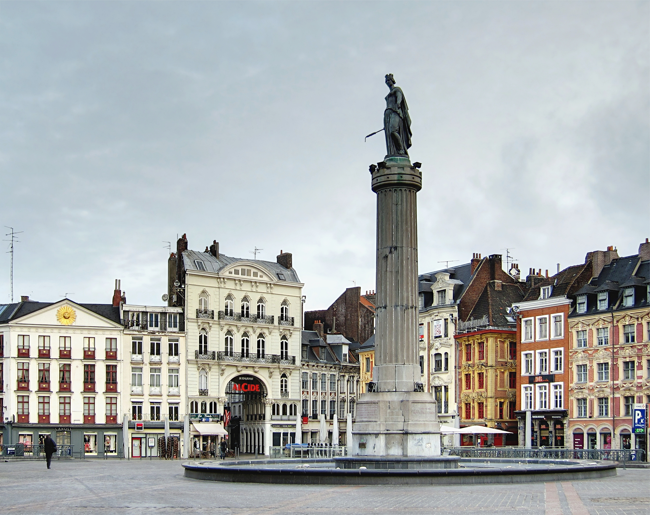 The Column of the Goddess, Place du Général de Gaulle in Lille, France.